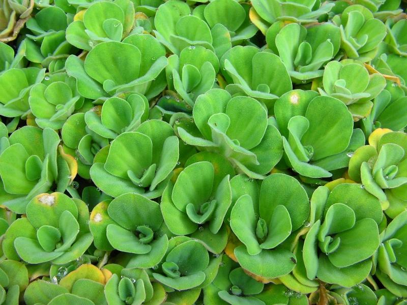 Picture of Water-lettuce (Pistia stratiotes) photographed using a Canon PowerShot A400 in my backyard